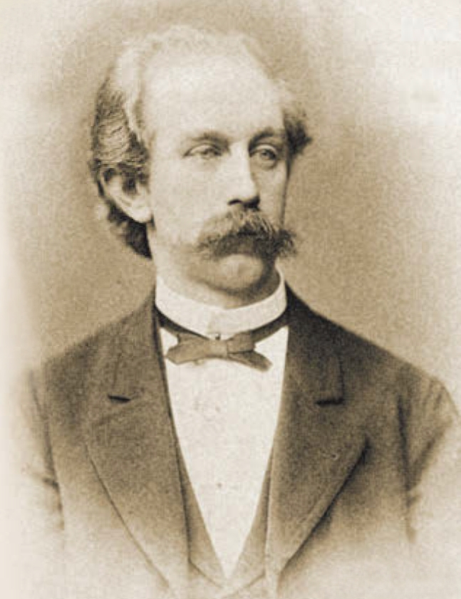 Erich Martini (1843-1880), German surgeon